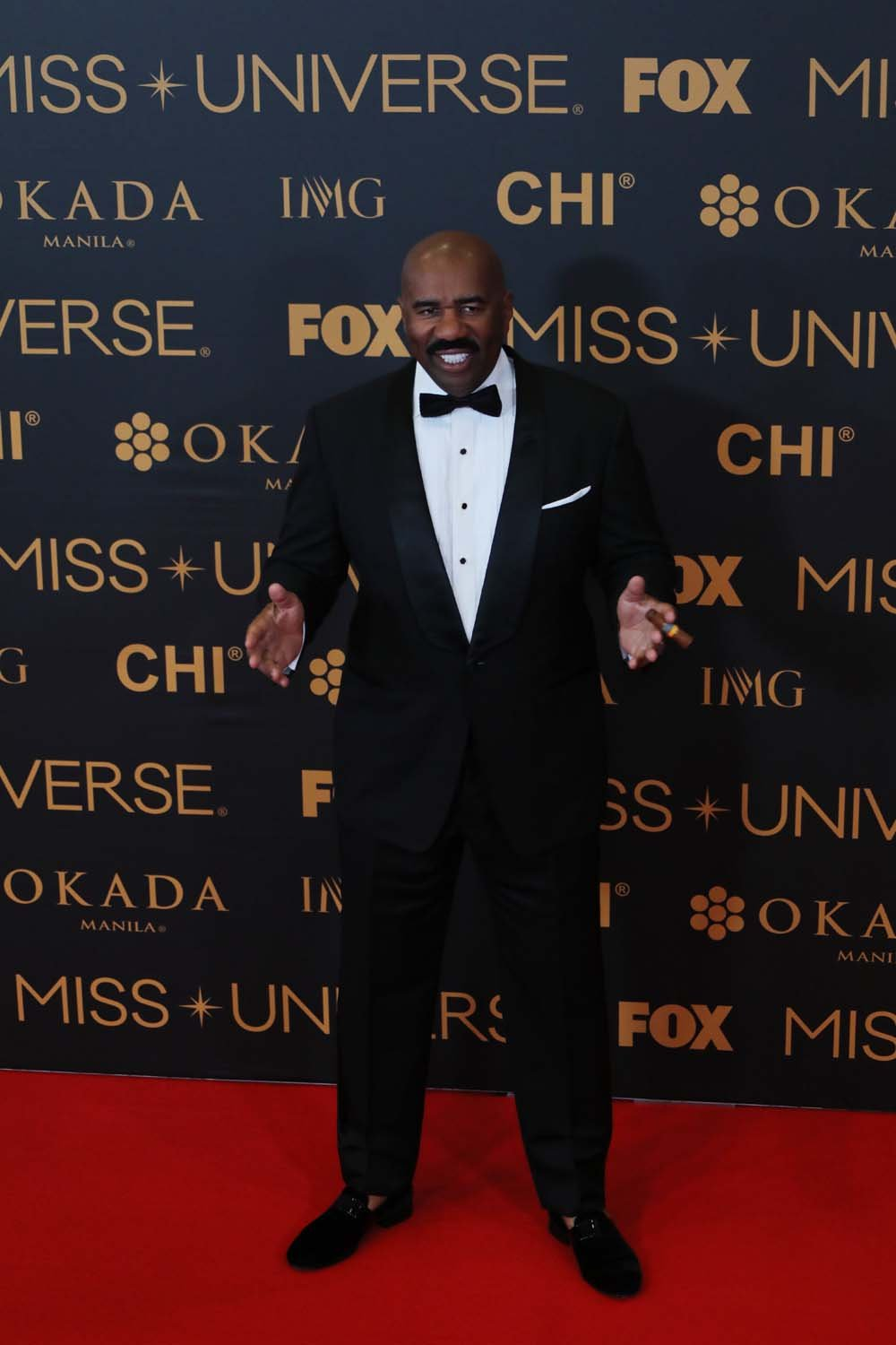 Steve Harvey at the Miss Universe Red Carpet event on Sunday evening at the SMX Convention Center in Pasay City "Miss Universe 2016" on January 30, 2017 (PNA photo by Avito C.Dalan)